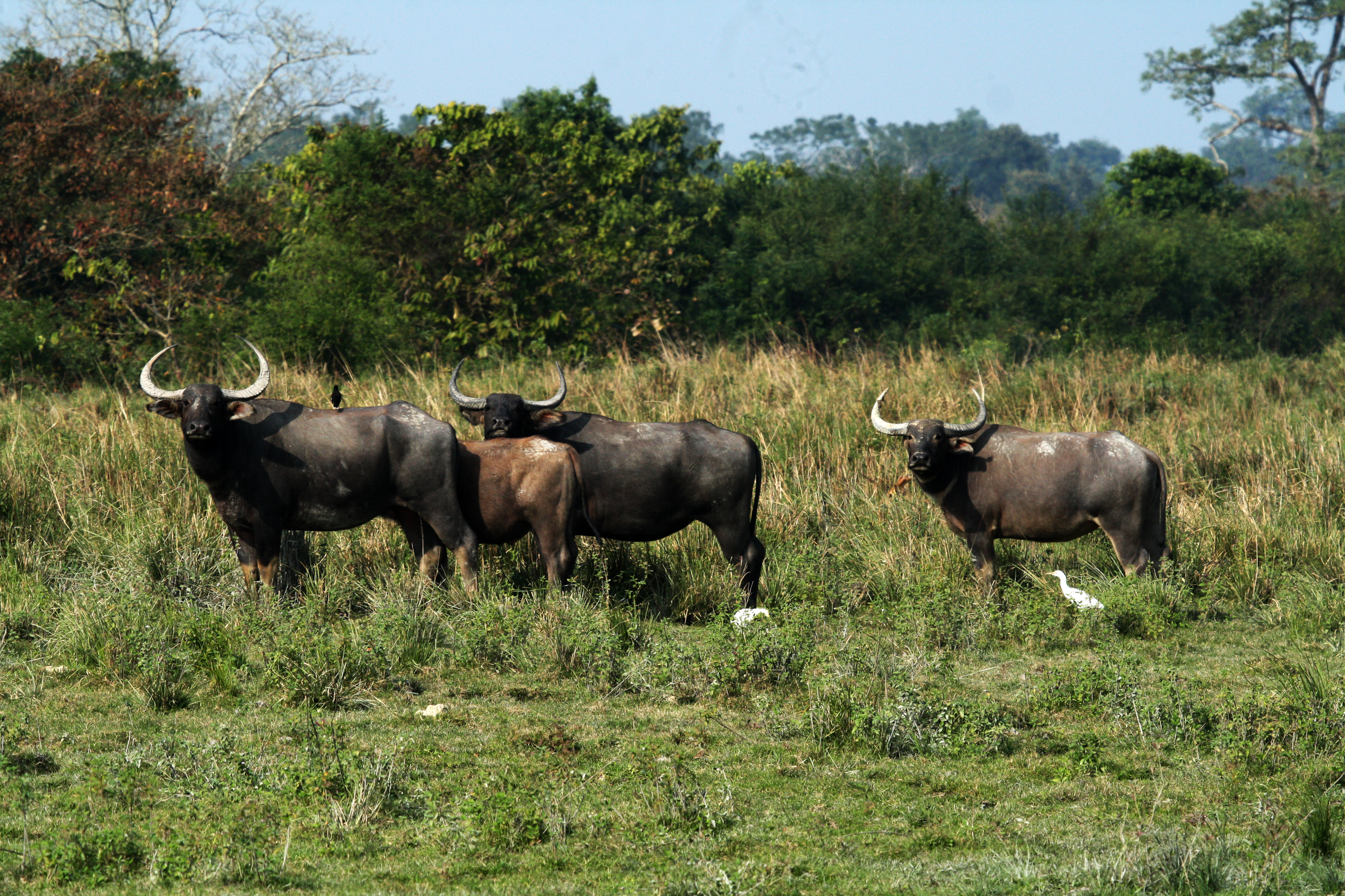 Indian Water Buffalo Bubalus arnee. Also called Asian Buffalo and Asiatic Buffalo.